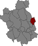 Location of Palau-solità i Plegamans in Vallès Occidental